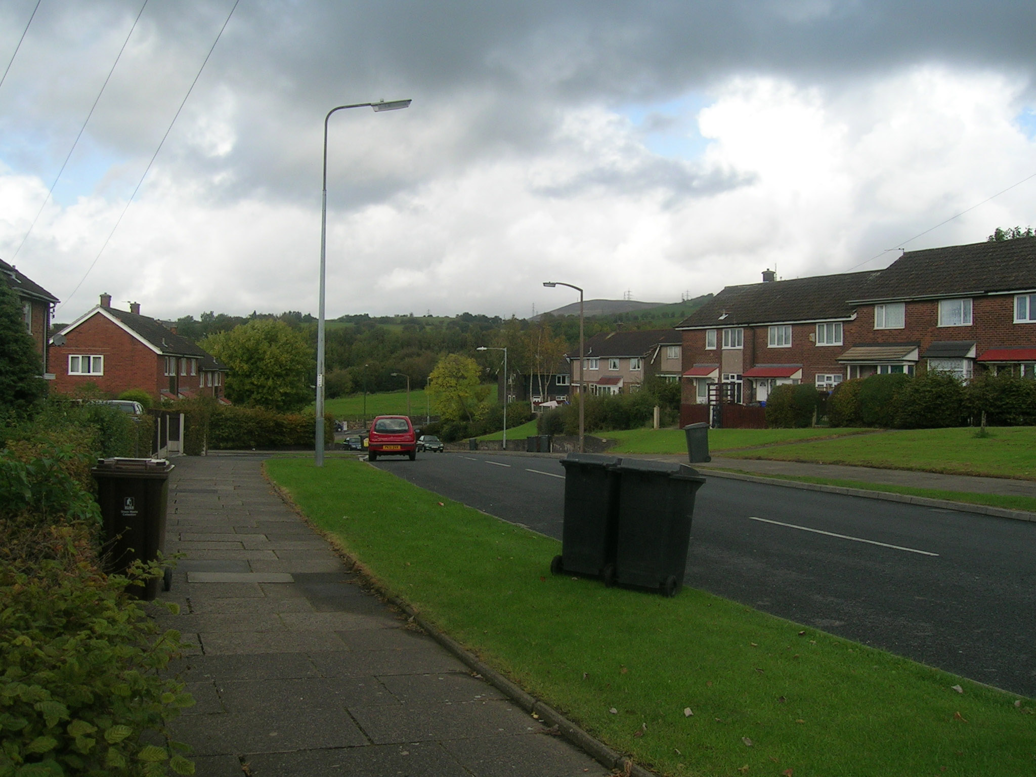 Hattersley Road West, Hattersley, Greater Manchester, England.